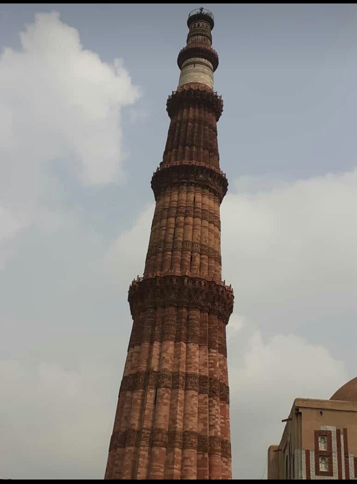 KUTUBMINAR IN DELHI